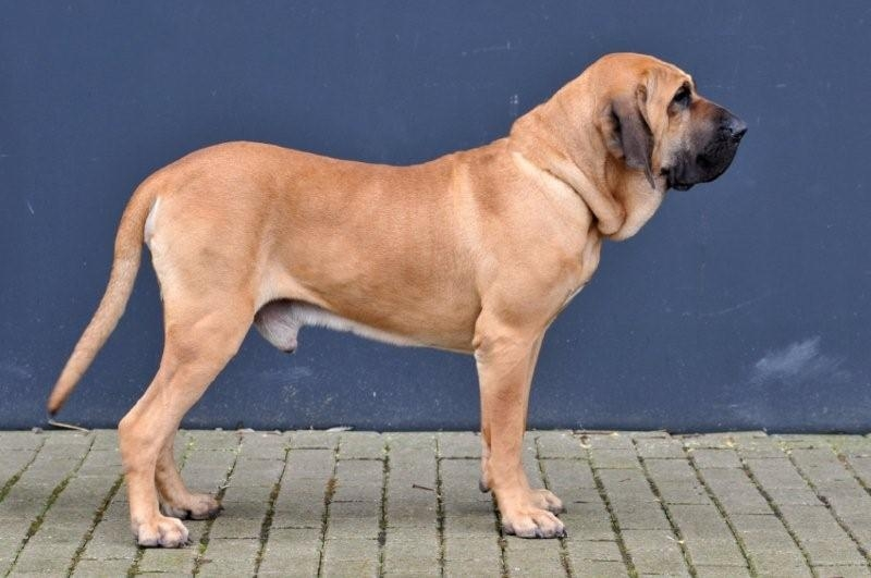 Fila Brasileiro from El Siledin Kennel in Spain